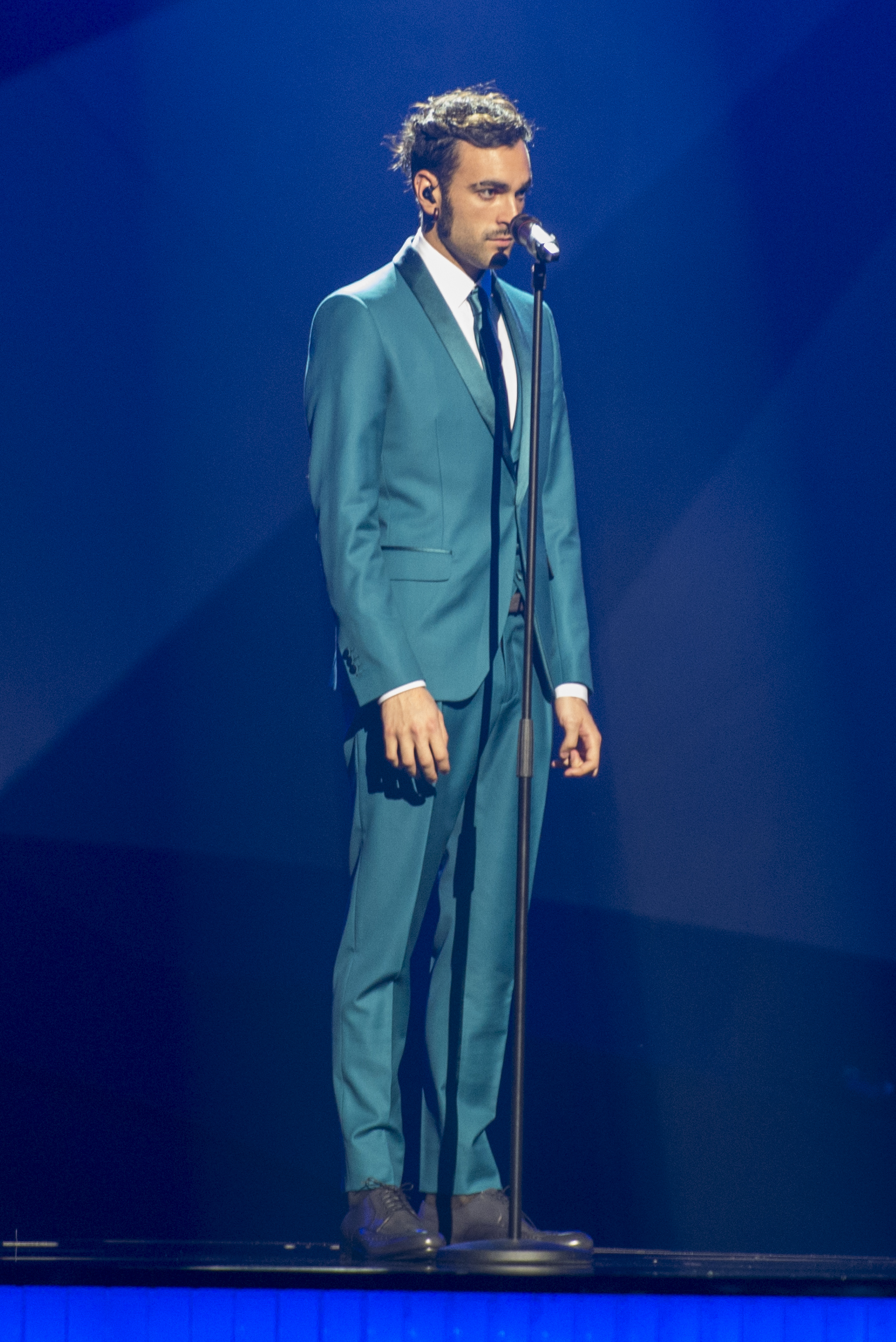 Marco Mengoni representing Italy with the song "L'essenziale" during the first dress rehearsal of the final of the Eurovision Song Contest 2013 in Malmö. (Help translate this text)